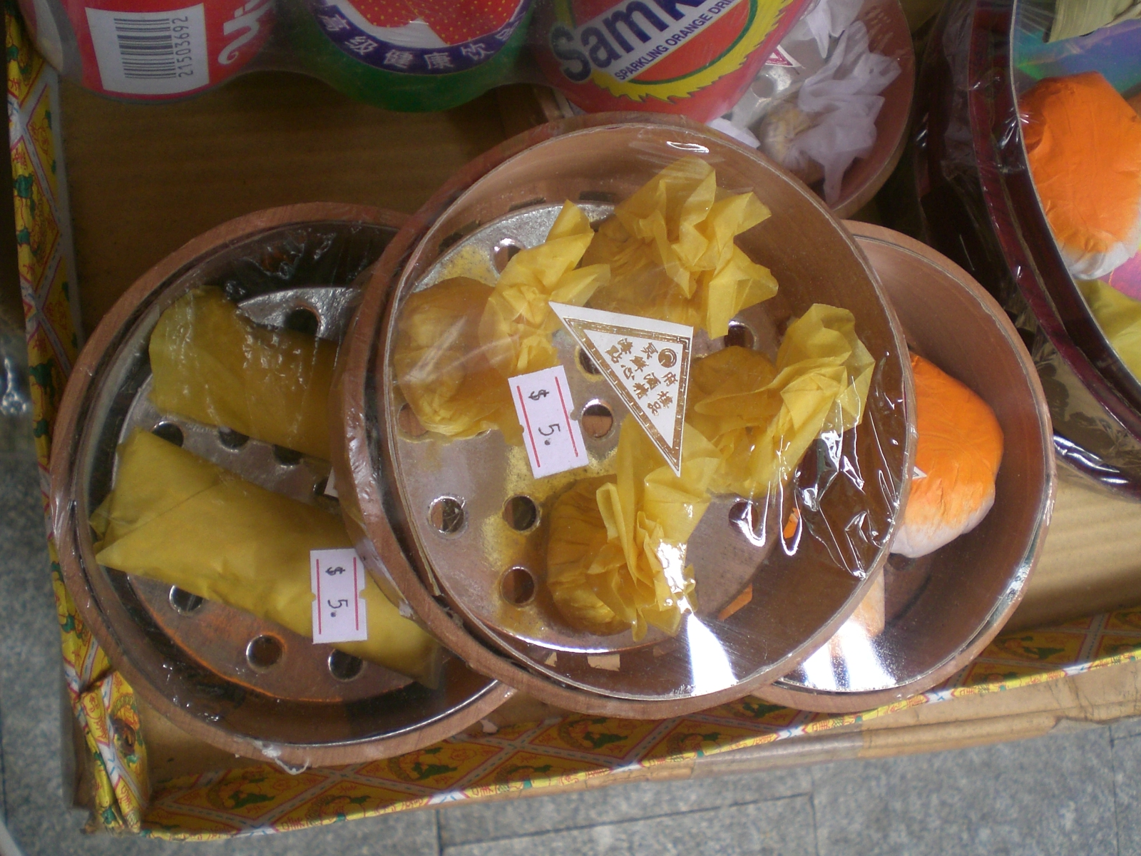 紙紮祭品